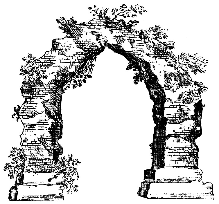 The remains of the Gate of Trajan around 1700, drawn by the Italian naturalist and soldier Luigi Ferdinando Marsigli (1658 – 1730). From L. Marsigli "Description du Danube" (The Hague, 1744), a French translation of his original work Danubius Pannonico-Mysicus published in the 1726.